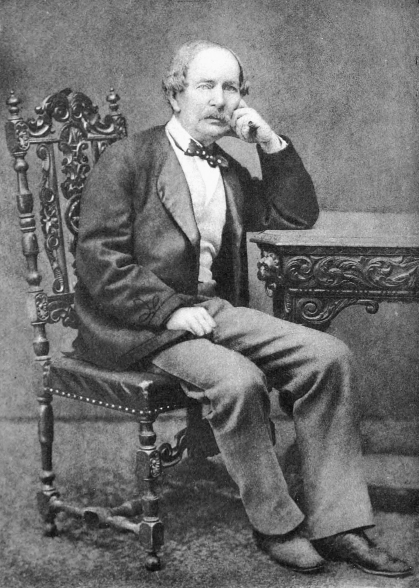 Portrait photo of Scottish diplomat and writer David Urquhart (1805-1877).